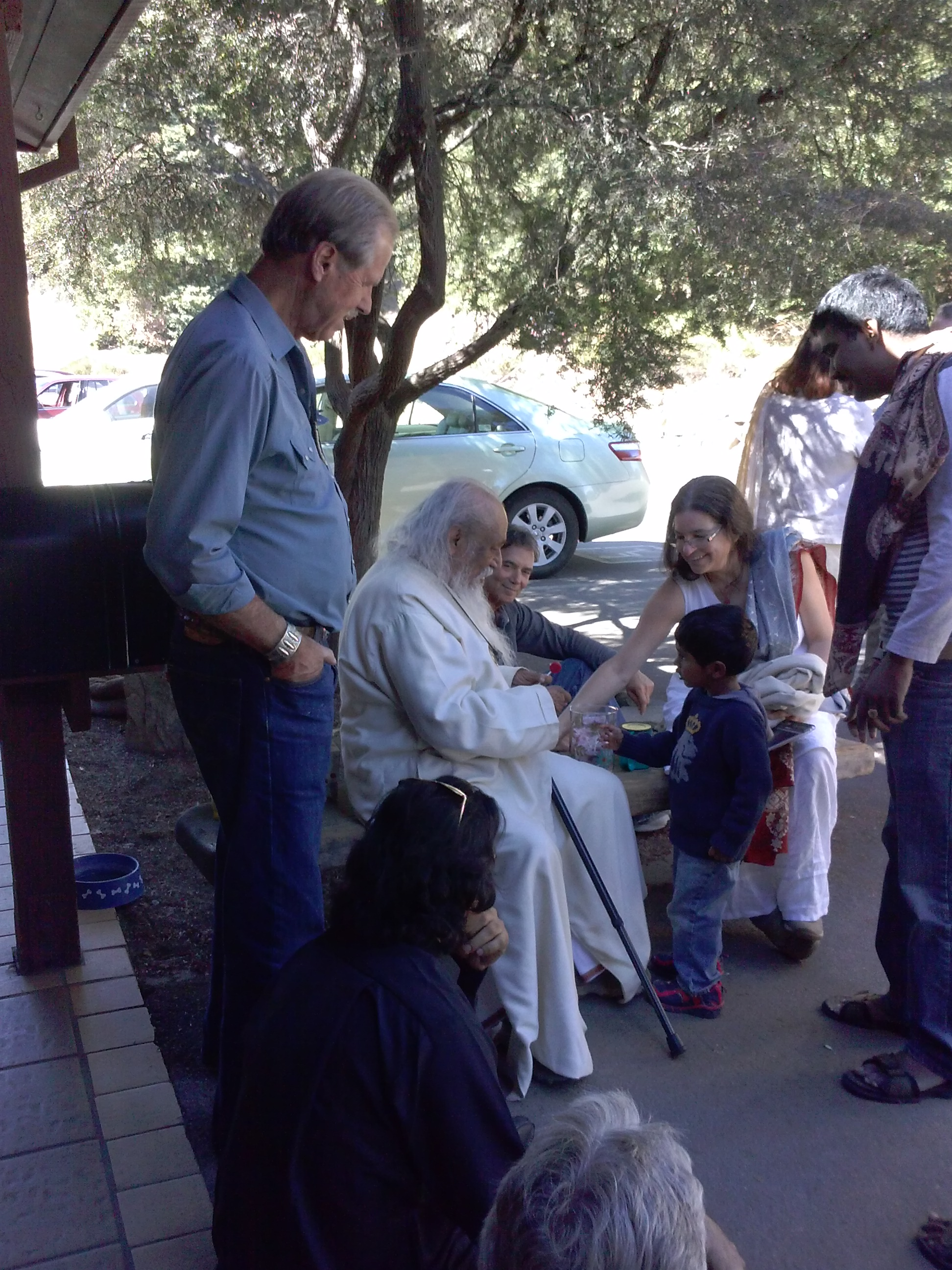 Baba Hari Dass giving candy to child